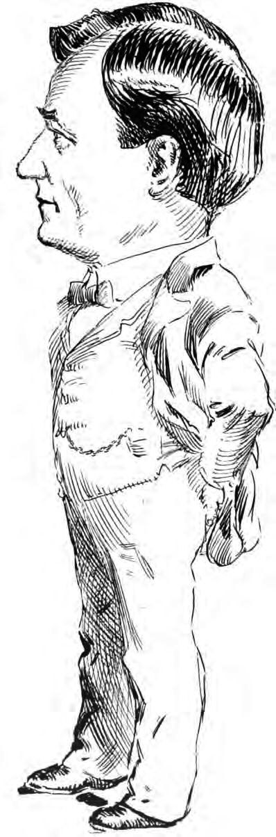 Congressman John N. Williamson